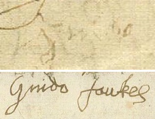 Top: Signature of "Guido" on his confession under torture, very faint and shaky. Bottom: Signature of "Guido Fawkes" on a further confession 8 days after being tortured.